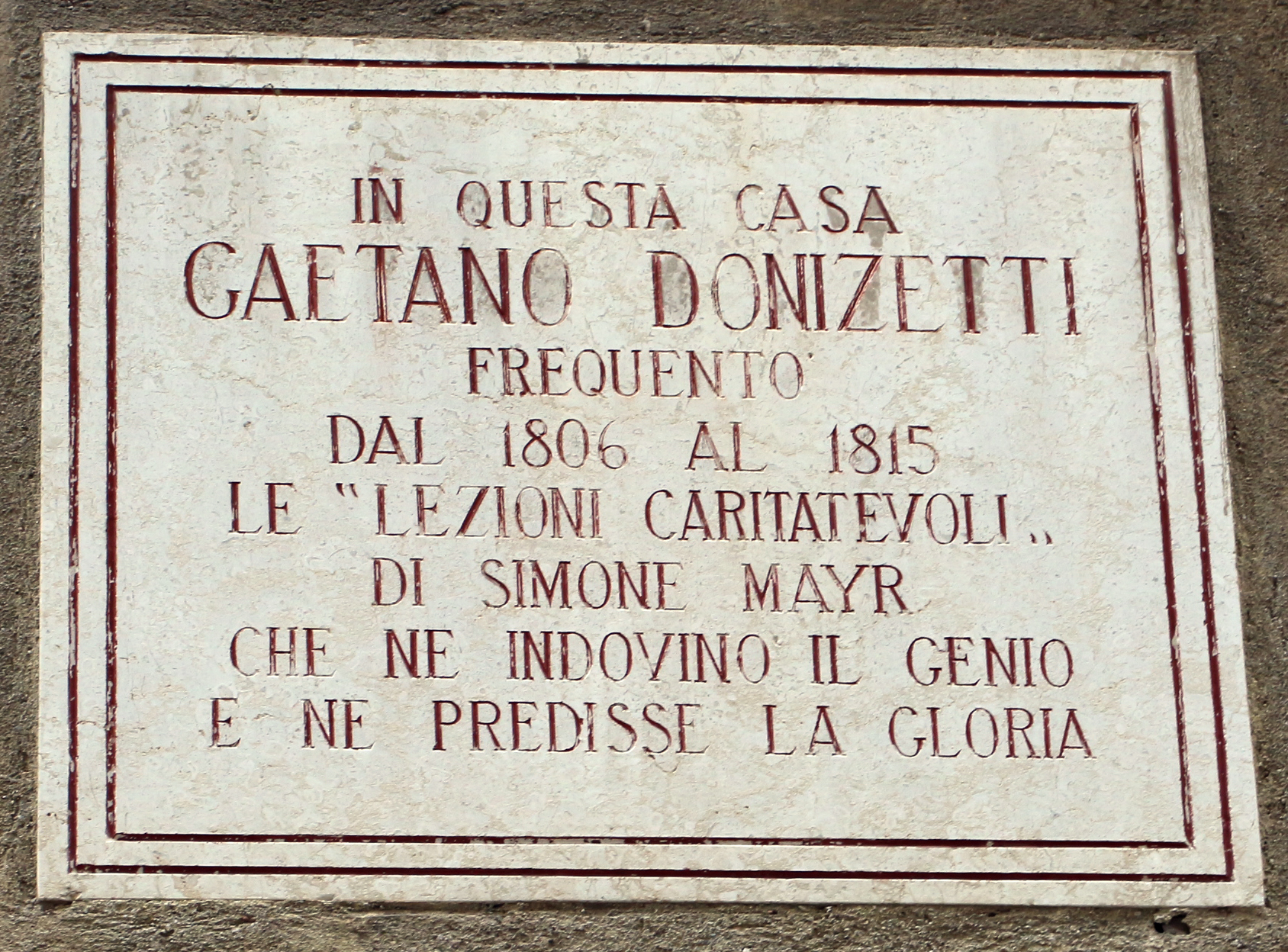 Santa Grata (Bergamo)